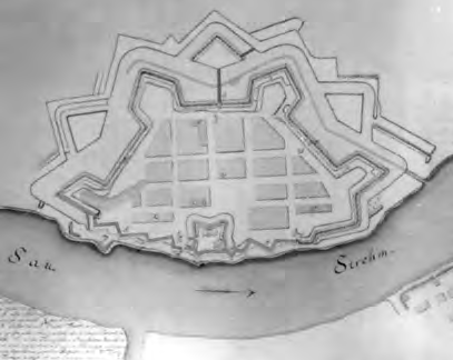 A plan of the Stara Gradiška fortress from 1750 (the National Archives of Austria, Kriegsarchiv Wien, Kartensammlung, Inland C VII, Nr. 11)